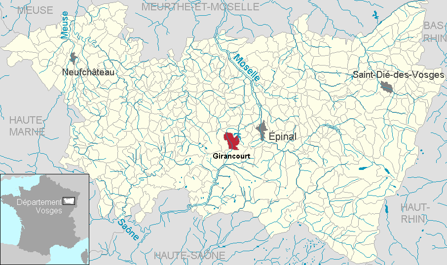 Girancourt in the department of Vosges, Lorraine, France